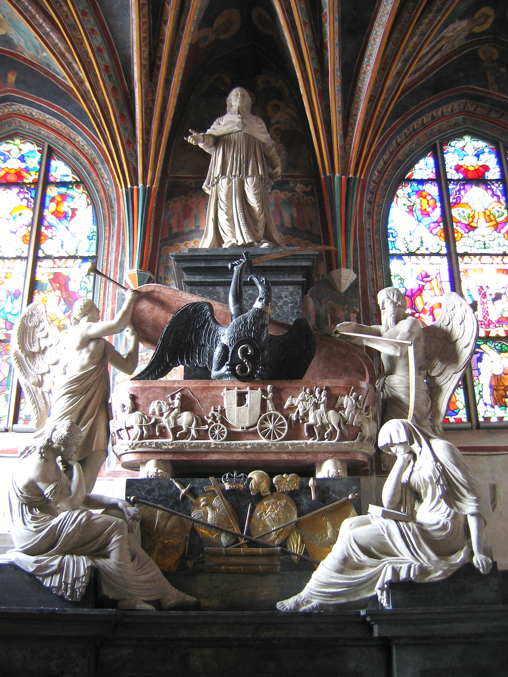 Tomb of Bishop of Kraków Kajetan Soltyk in Wawel Cathedral photo by User:Mathiasrex Maciej Szczepańczyk